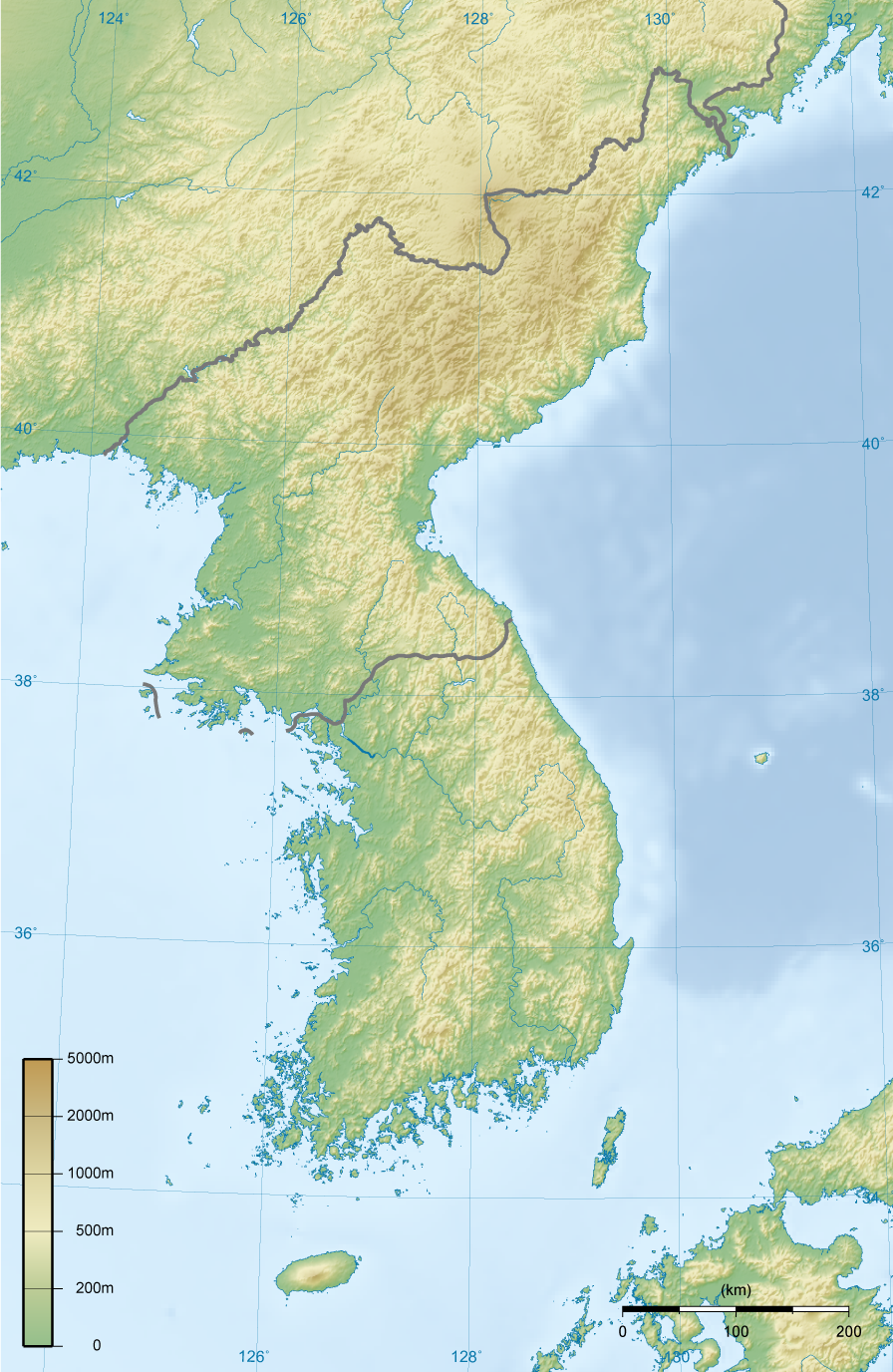 Topographic map of Korea.